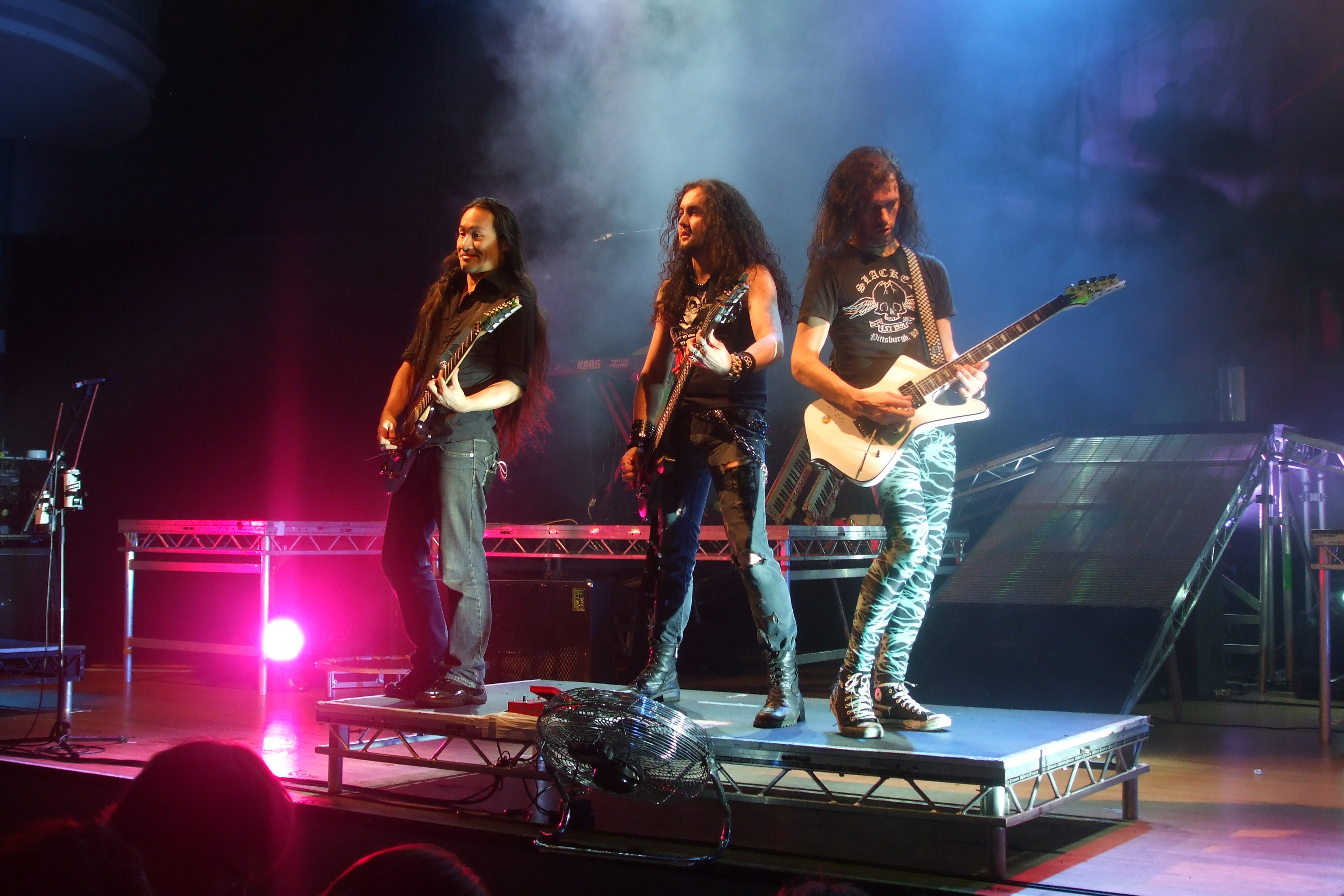 DragonForce performing at the Victoria Hall, Hanley on December 1st 2009.